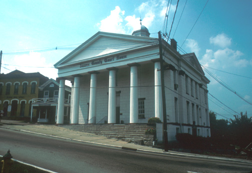 Sussex County Courthouse in Newton, New Jersey, United States, built in 1847. Address is One Spring Street, at the intersection of Spring and Water Streets.